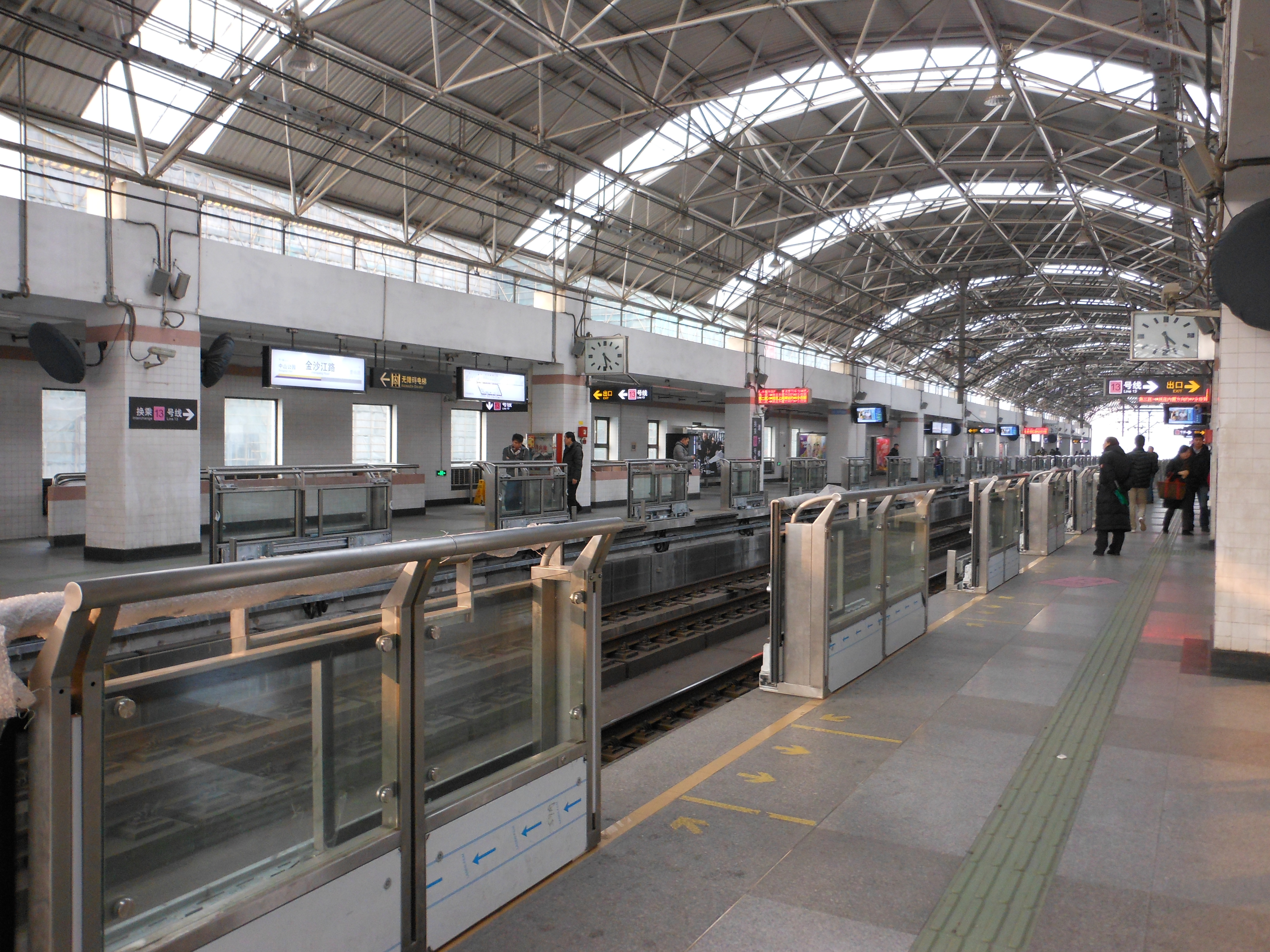 Line 3 & Line 4 Platform of Jinshajiang Road Station